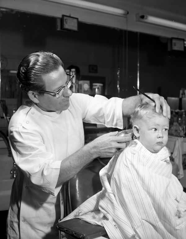 Persistent URL: Local call number: TD00220B Title: Dorian Stripling getting his first haircut in Tallahassee, Florida Date: January 15, 1957 Physical descrip: 1 photonegative - b&w - 4 x 5 in. Series Title: Tallahassee Democrat Collection Repository: State Library and Archives of Florida 500 S. Bronough St., Tallahassee, FL, 32399-0250 USA, Contact: 850.245.6700